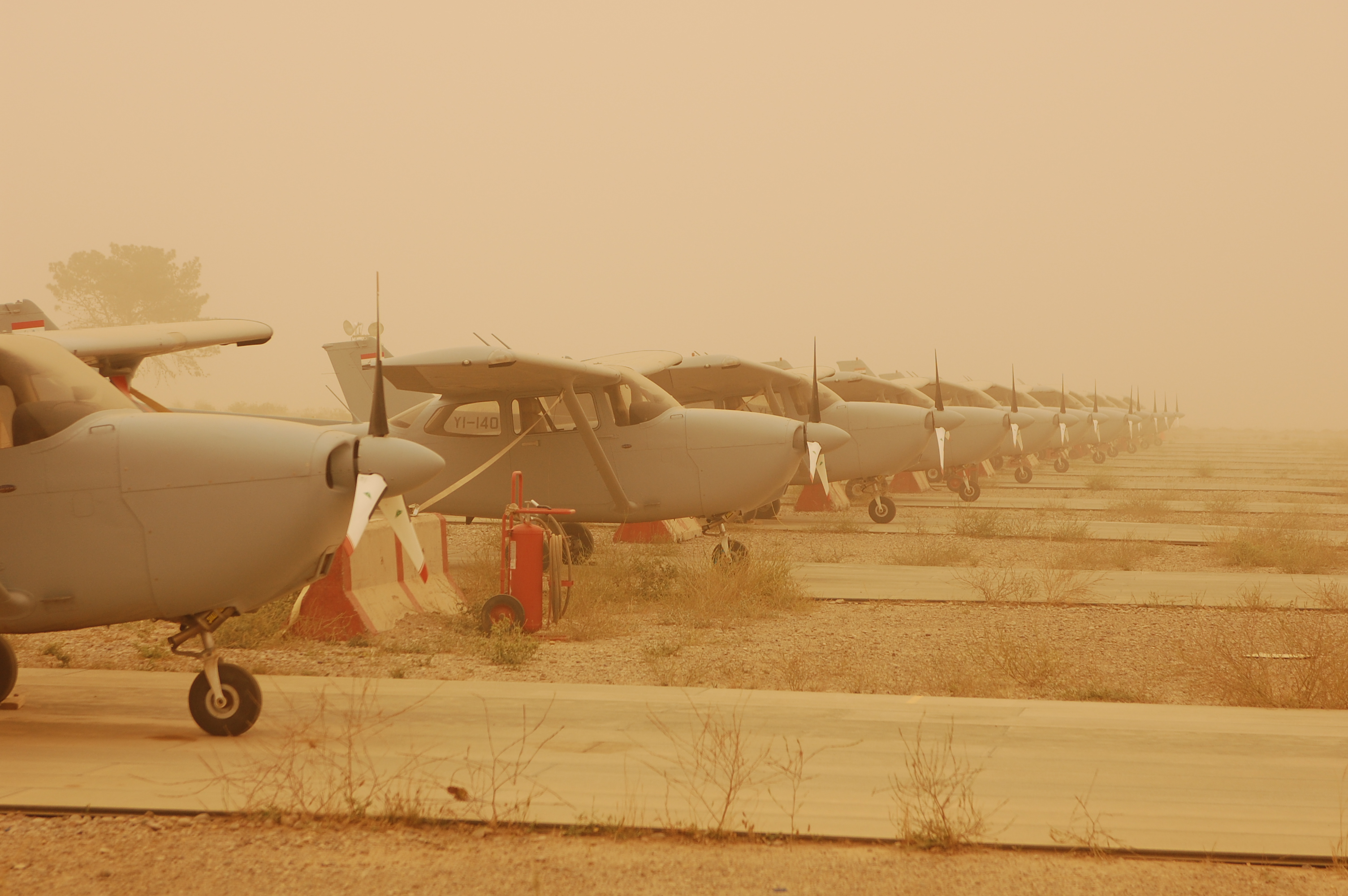 Iraqi C-172 Skyhawks grounded while a dust storm hits Kirkuk Regional Air Base on May 5. Multi-National Security Transition Command-Iraq, Public Affairs Office Photo by Capt. Tommy Avilucea Date: 05.05.2009 Location: Kirkuk, IQ Related Photos